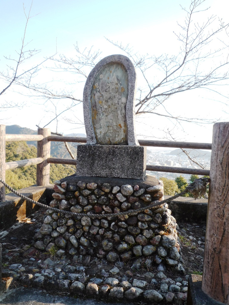 Kunikida-Doppo stone monument